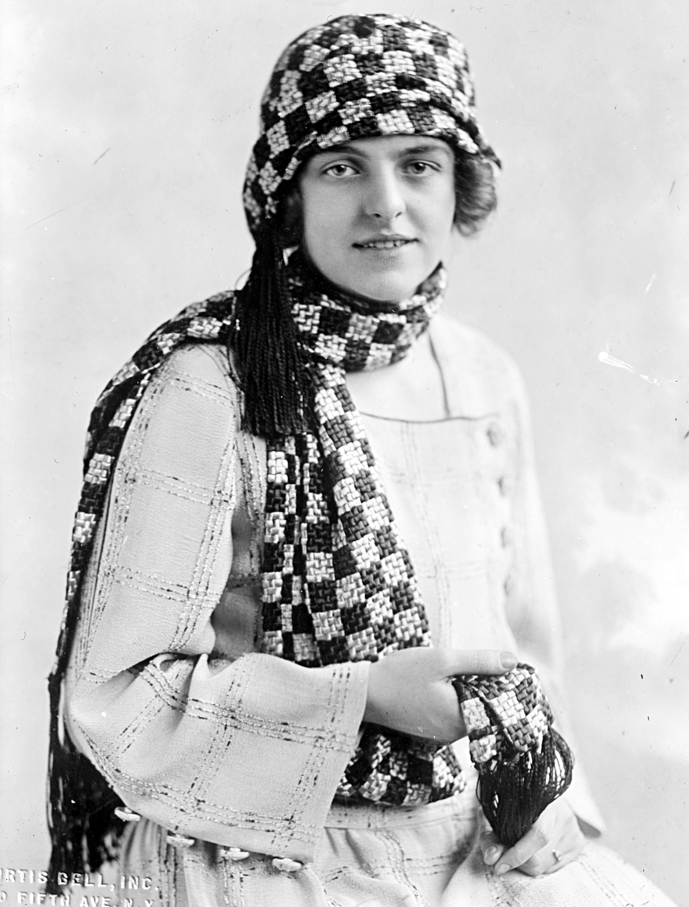 Helen Gahagan Douglas, American actress and politician